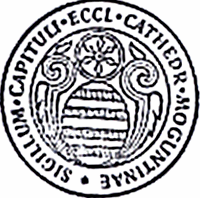 seal of the Moguntine cathedral chapter.